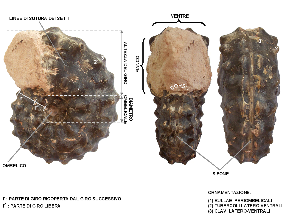 specimen of Mammites nodosoides (Ammonoidea; Ammonitida) from the Late Cretaceous (Turonian) of Morocco, with technical terminology concerning the shell morphology. Text in italian.